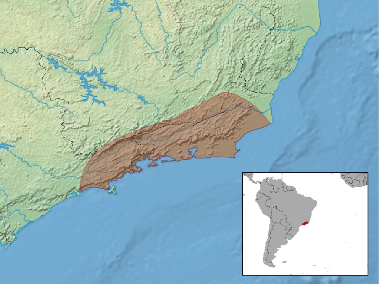 geographic distribution of Trinomys dimidiatus